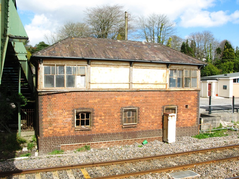 The old Great Western Railway signal box at St Austell, Cornwall, United Kingdom.